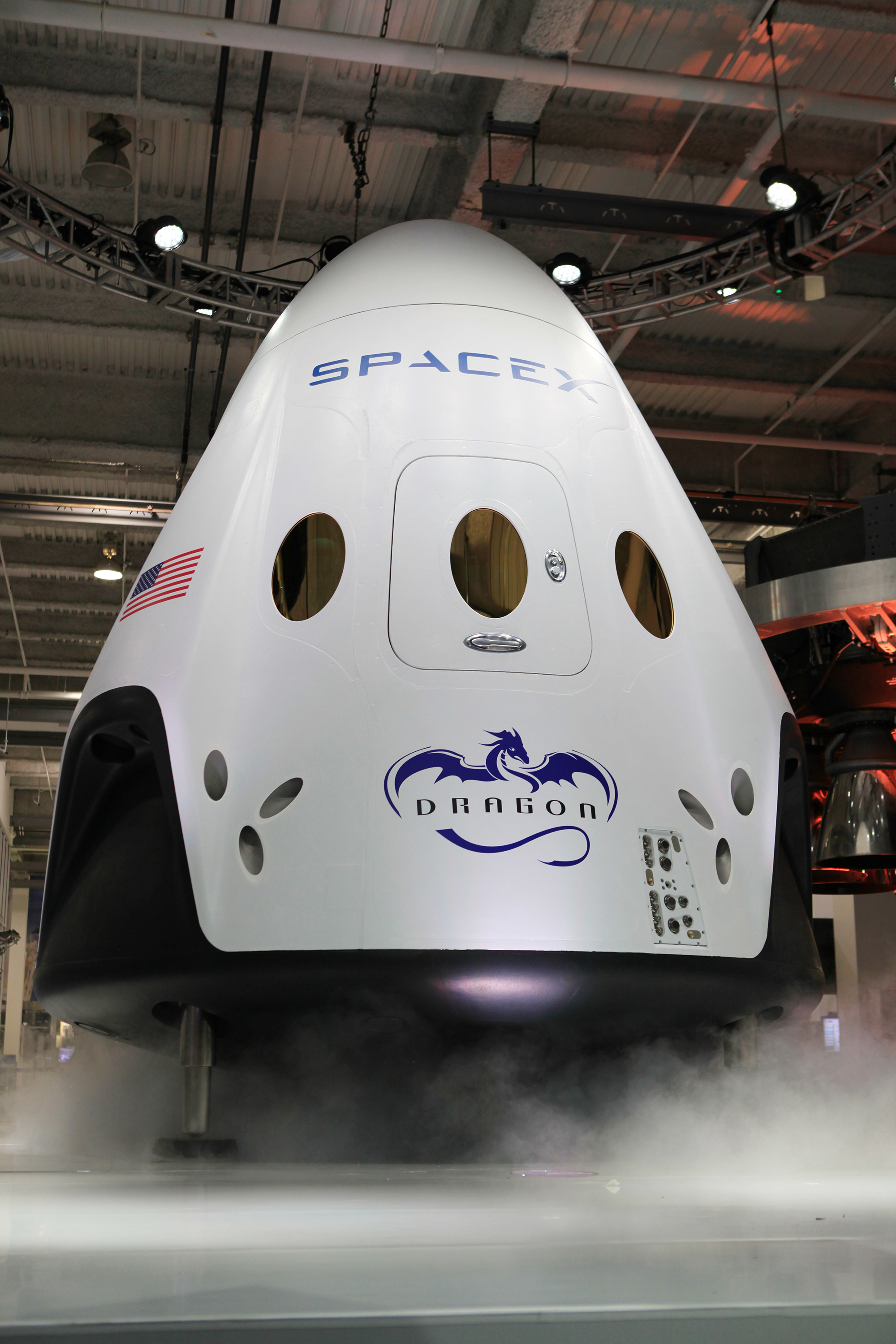 The Dragon V2 stands on a stage inside SpaceX headquarters in Hawthorne, Calif., during its unveiling. The spacecraft is designed to carry people into Earth's orbit and was developed in partnership with NASA's Commercial Crew Program under the Commercial Crew Integrated Capability agreement. SpaceX is one of NASA's commercial partners working to develop a new generation of U.S. spacecraft and rockets capable of transporting humans to and from Earth's orbit from American soil. Ultimately, NASA intends to use such commercial systems to fly U.S. astronauts to and from the International Space Station.